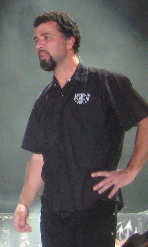 Guitar player Tony Rombola from Godsmack group.